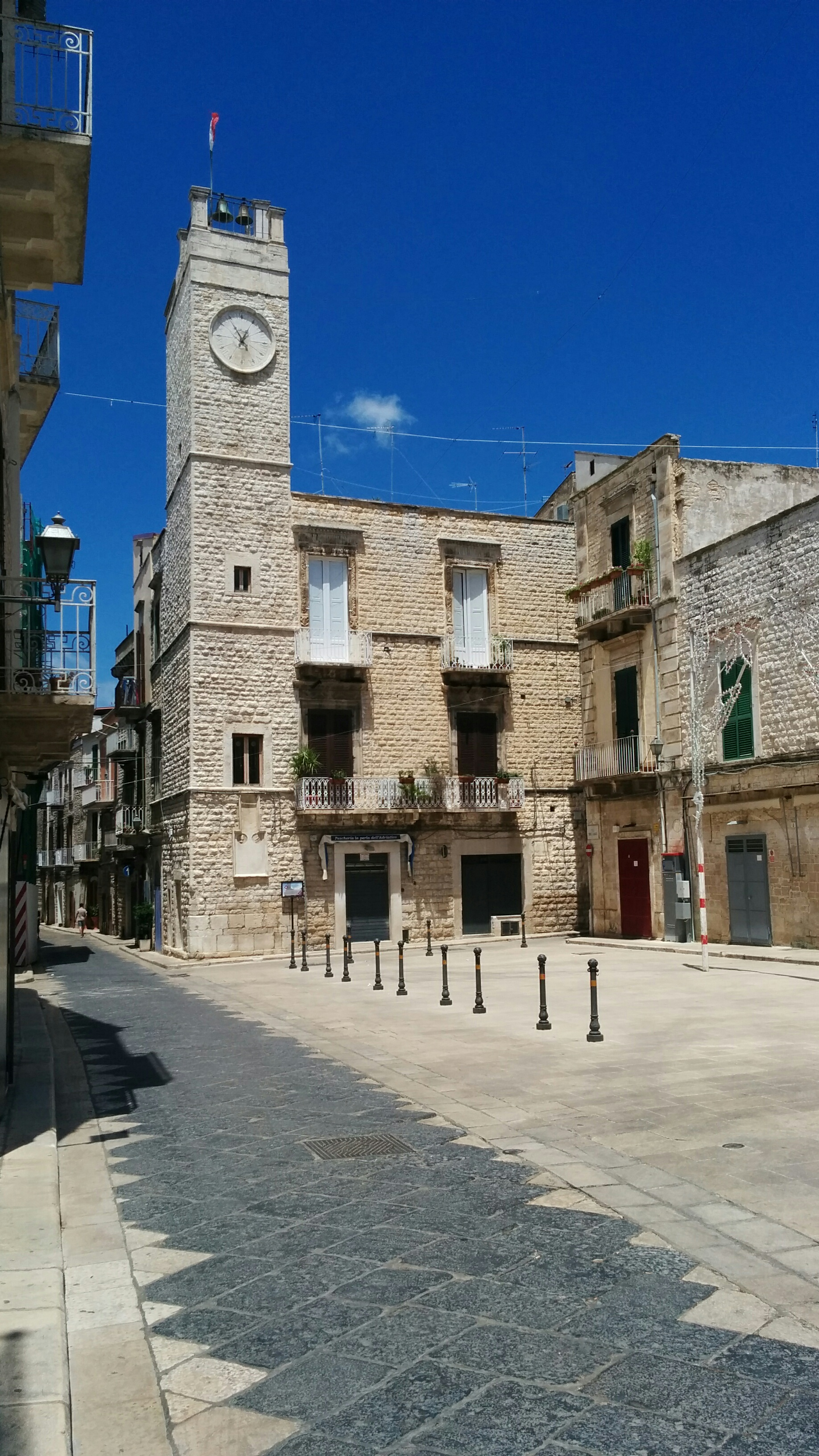 Torre dell'Orologio in Ruvo di Puglia, Piazza Garibaldi